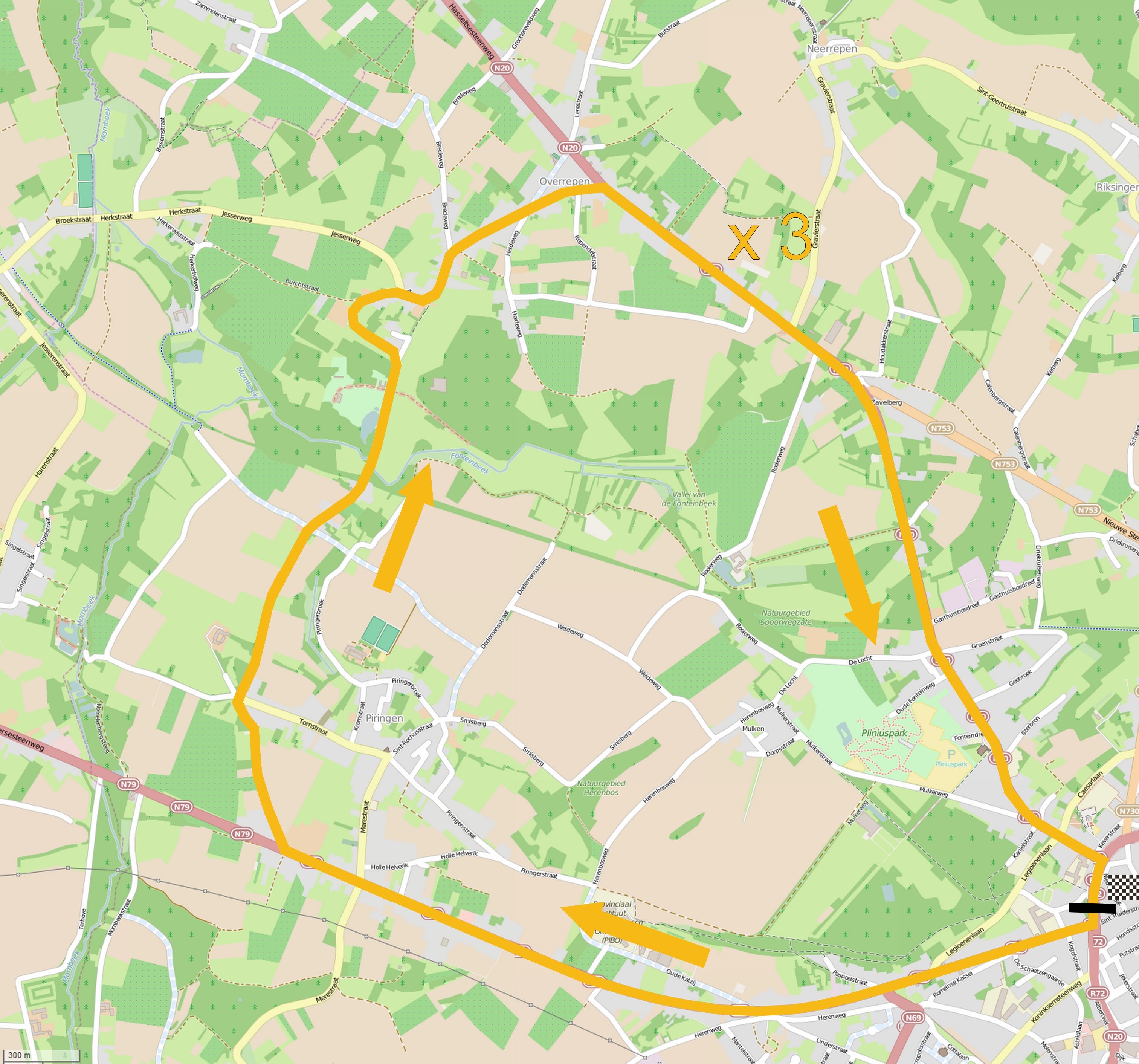 Parcours du circuit local du Tour du Limbourg 2015. This map may be incomplete, and may contain errors. Don't rely solely on it for navigation.